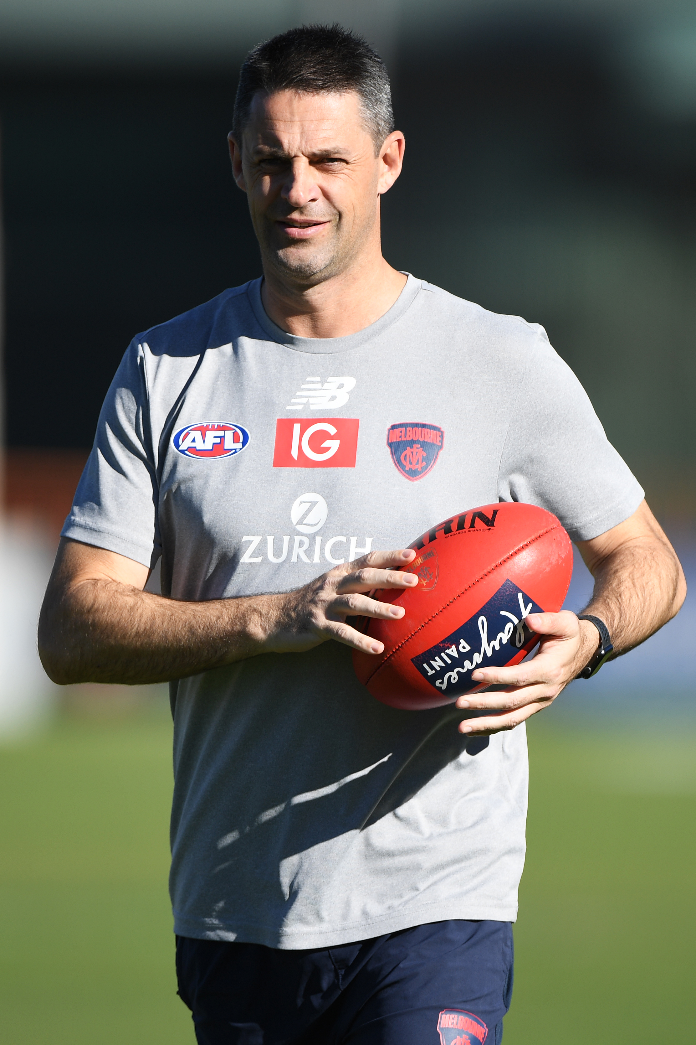 Jade Rawlings of Melbourne during Melbourne training at Traeger Park on Saturday, 20 July 2019 in Alice Springs, Northern Territory.